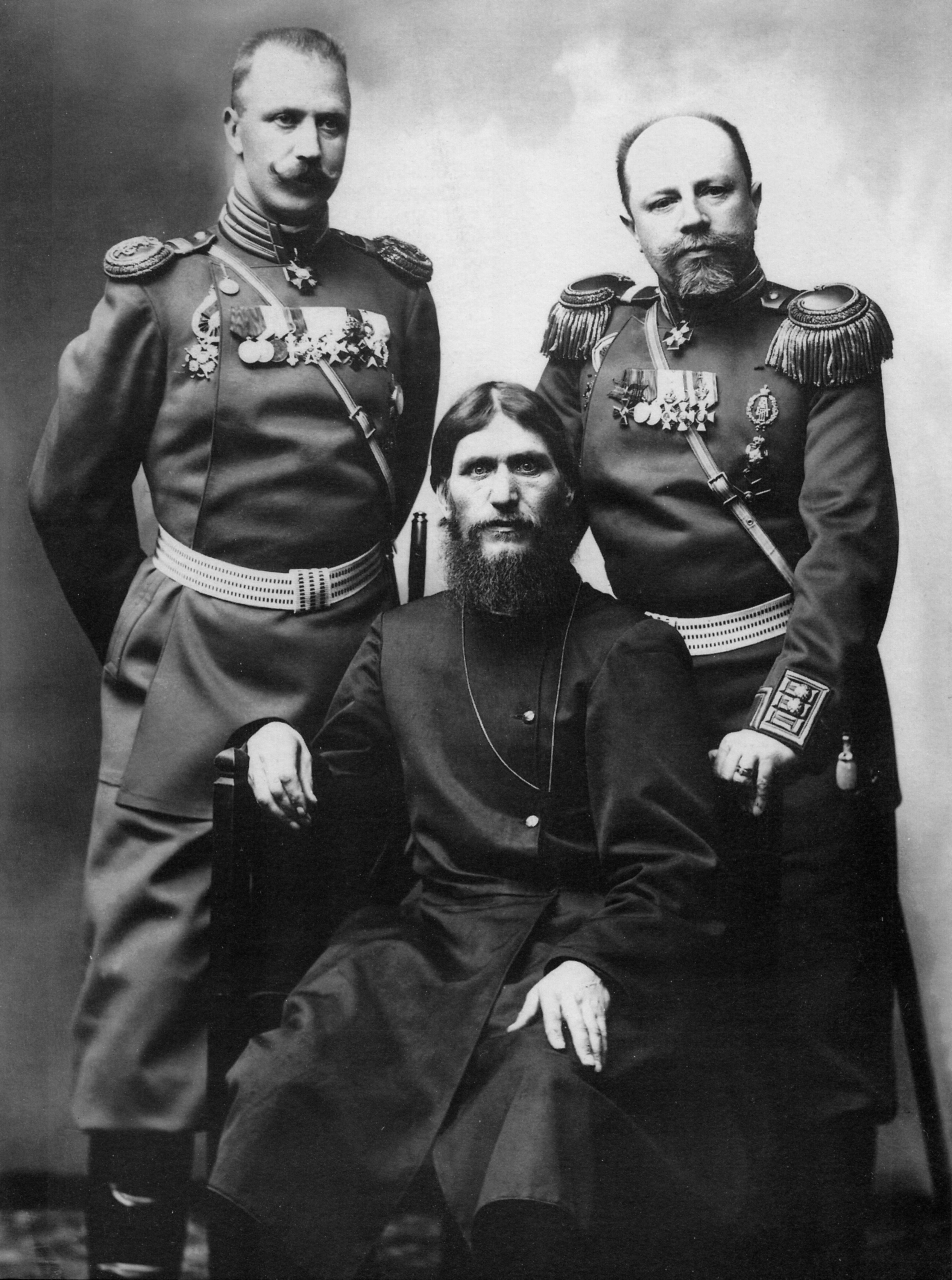 Grigory Rasputin, Major General Putyatin and Colonel Loman